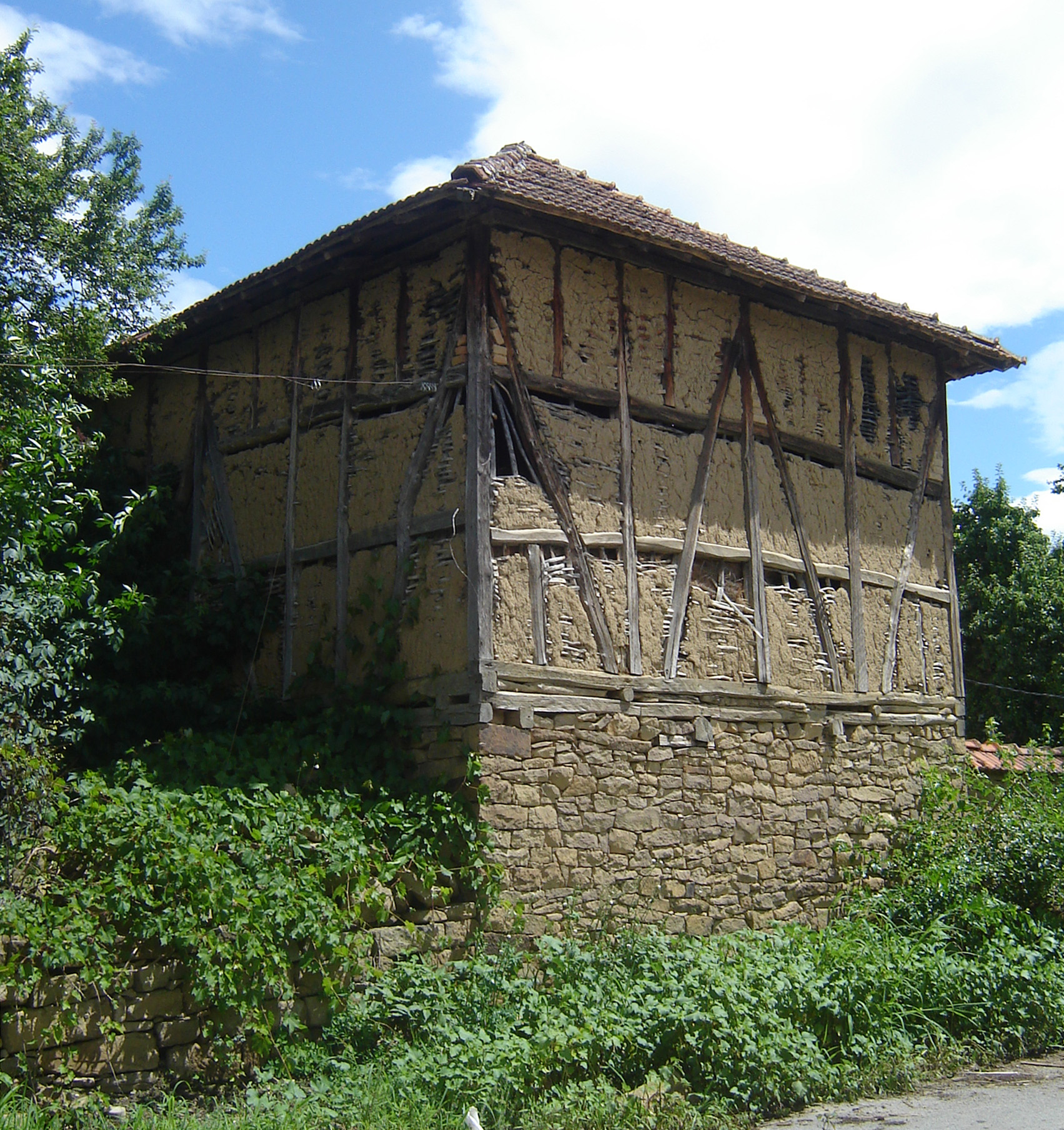 An old wattle-and-daub building in the village of Bozhenitsa, Bulgaria. It's commonly called плетенарка /plete'narka/ ("something made by wattling") in Bulgarian.